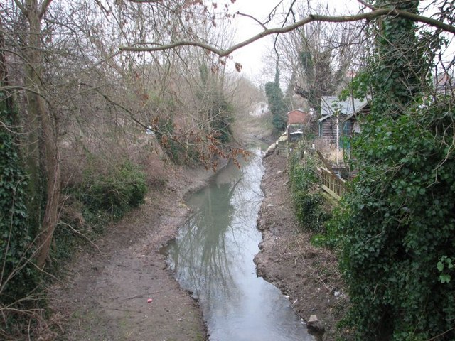 Osney Ditch Flows off Bulstake Stream and links back up with the Thames. It's what makes Osney an Island and causes the bad floods it has.